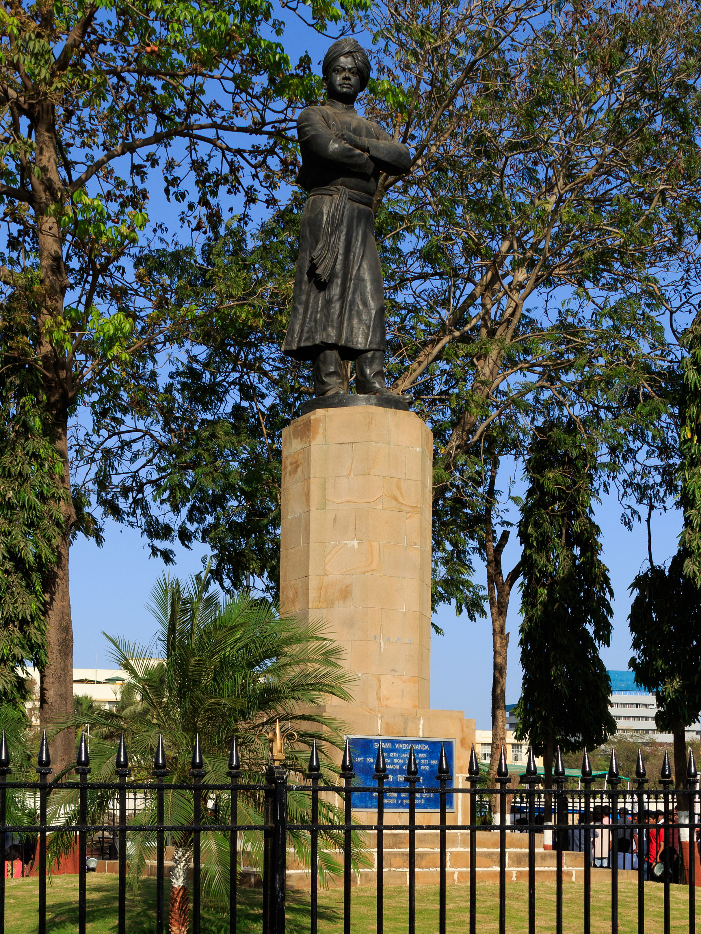 Monument to Swami Vivekananda in Mumbai, India